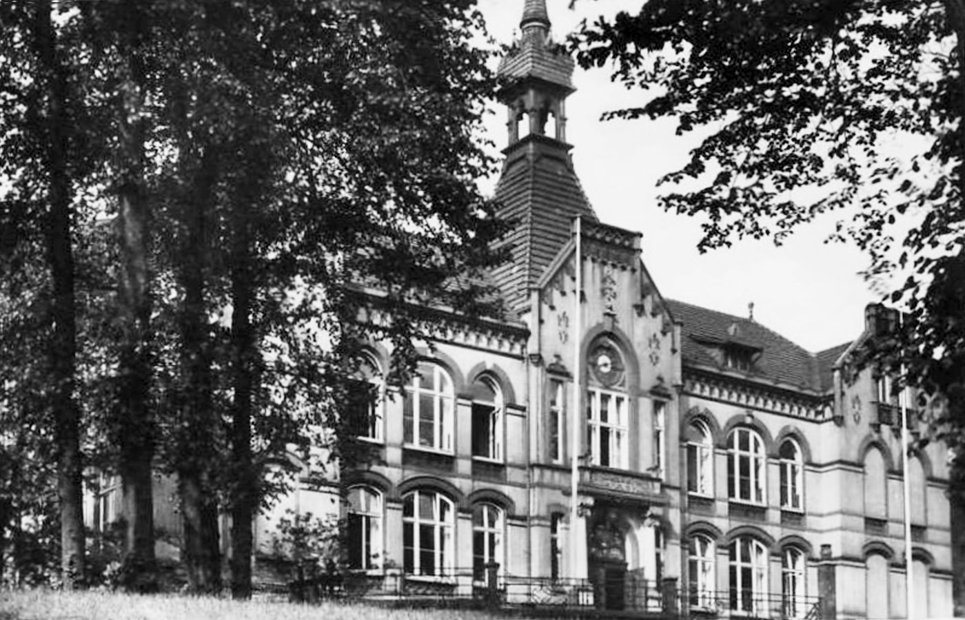 Lyzeum am Schwarzenberg in Harburg (heutiges Lessing-Gymnasium)